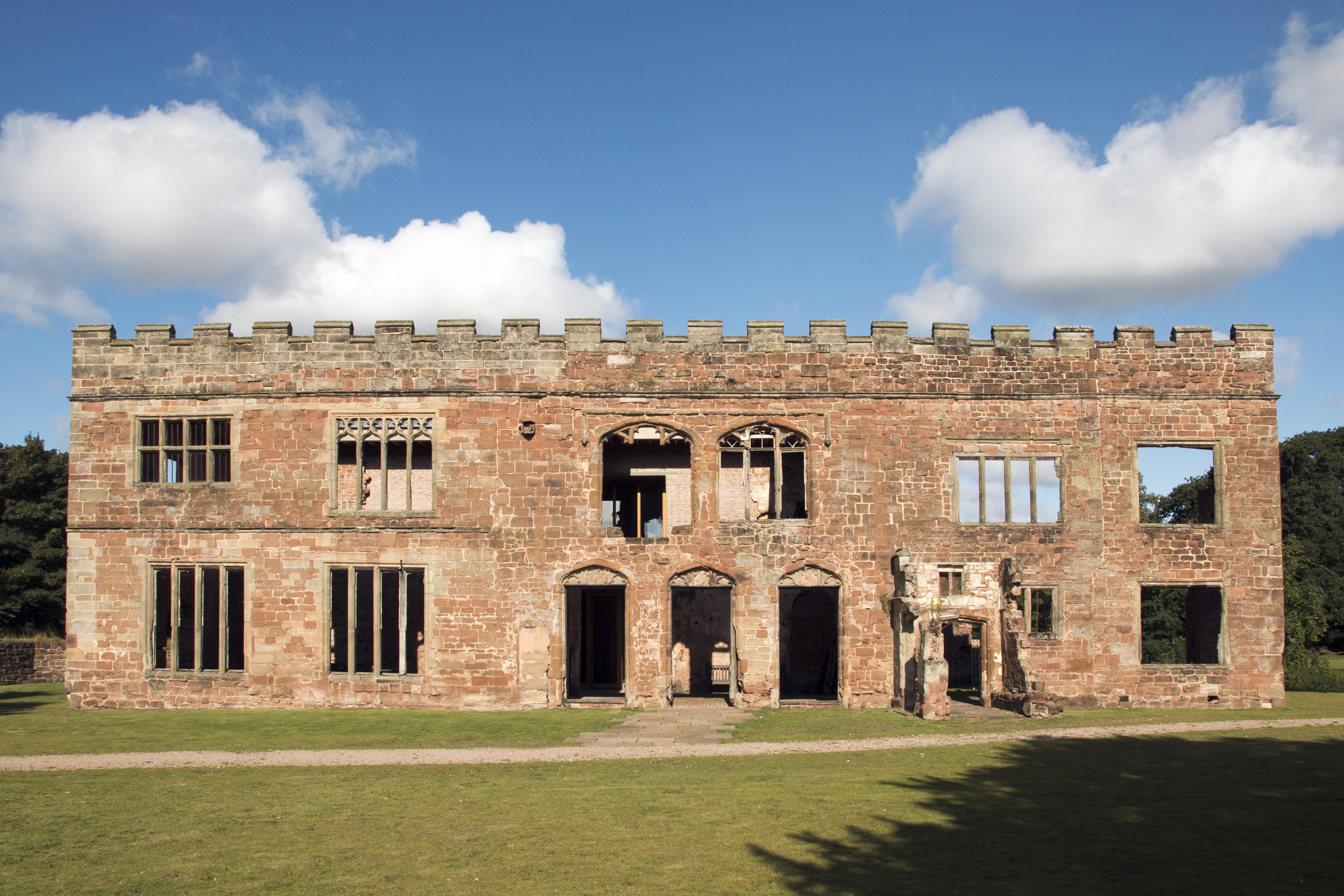 Astley Castle, south east façade Wikidata has entry Q4810907 with data related to this building.